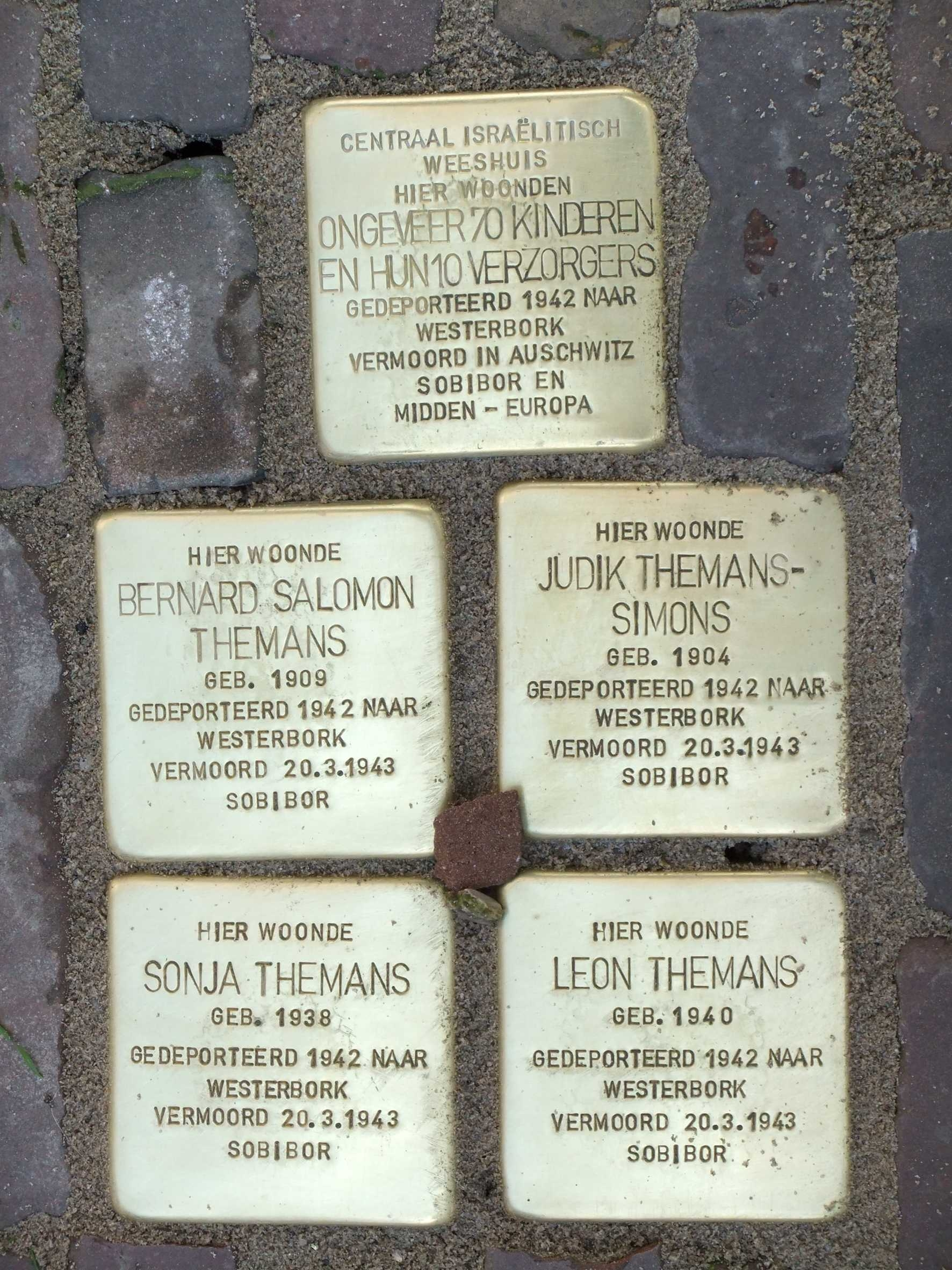 Stolpersteine at the Jewish orphanage (Centraal Israëlitisch Weeshuis) in Utrecht, The Netherlands